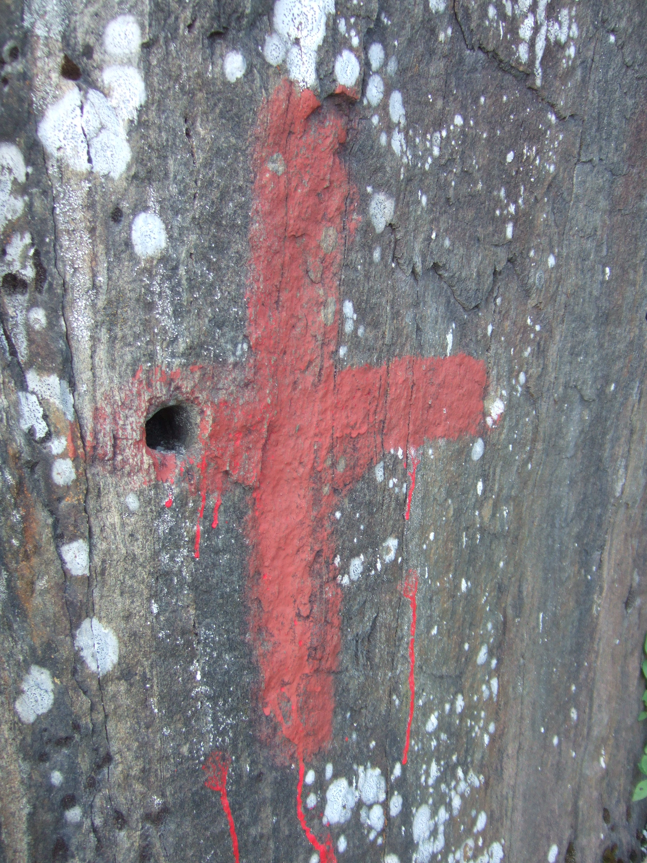 The cross drawn on the rock face at Blodveien in Saltdal in Norway. The cross was originally painted with the blood of war prisoner Milos Banjac after he was shot by a Wehrmacht soldier. His brother painted the cross. The event gave the name to this stretch of the European route E 6. Today the cross is marked with paint.